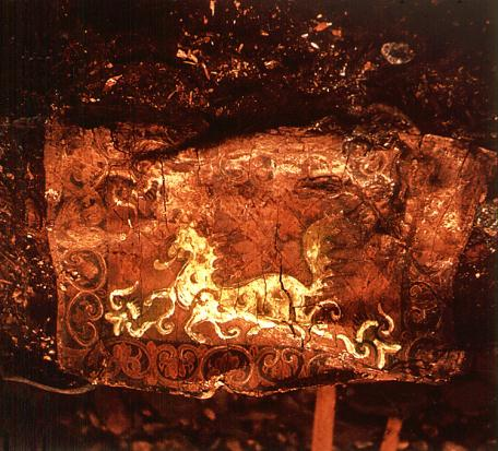 Cheonmado or Cheonmadojangni is the only surviving picture of Silla kingdom of Korea. It was excavated from Cheonmacheong (lit. Heavenly Horse Tomb) in Gyeongju, old capital of Silla, South Korea. Cheonmado is designated as the 207th National Treasures of South Korea and exhibited in National Museum of Korea in Seoul.